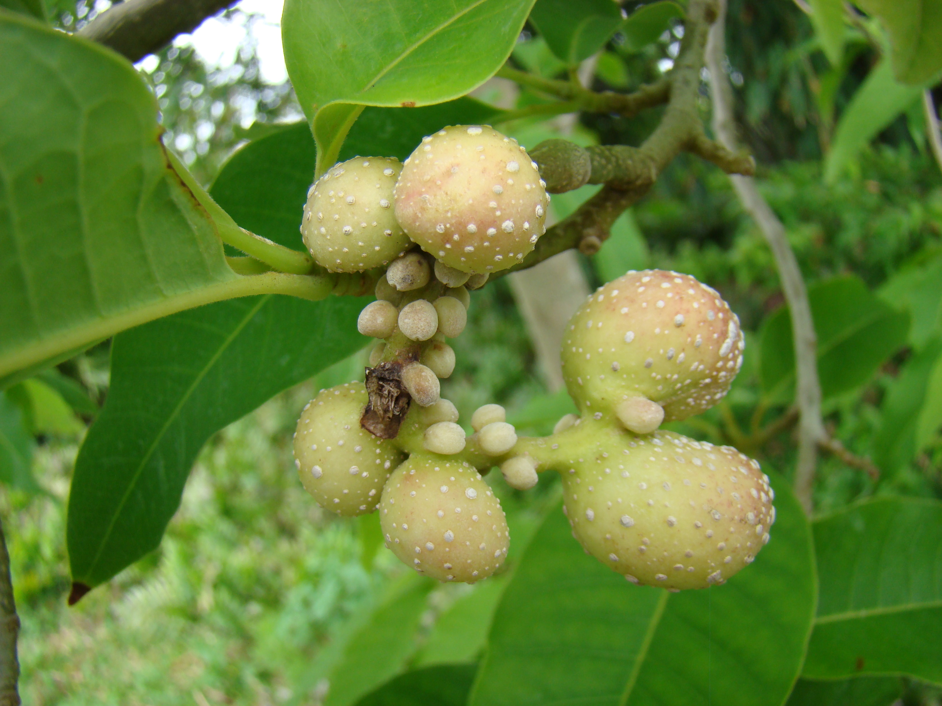 Immature seed pods hanging from a Champaca Magnolia (Magnolia champaca, Magnoliaceae) tree in the Mounts Botanical Garden, West Palm Beach, Florida.